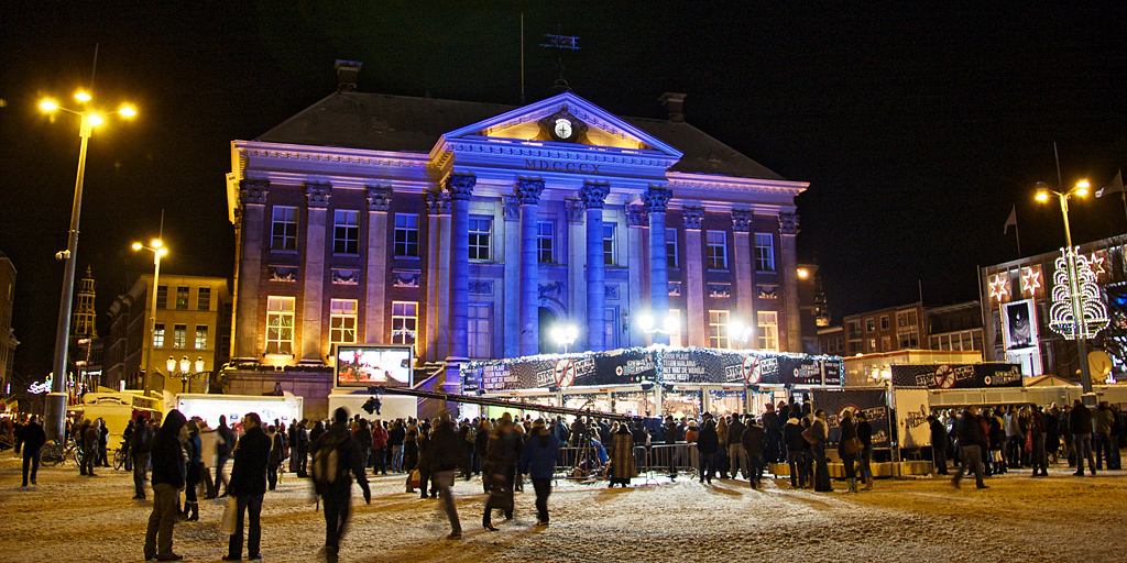 3FM Serious Request 2009 te Groningen. December 18, 2009.